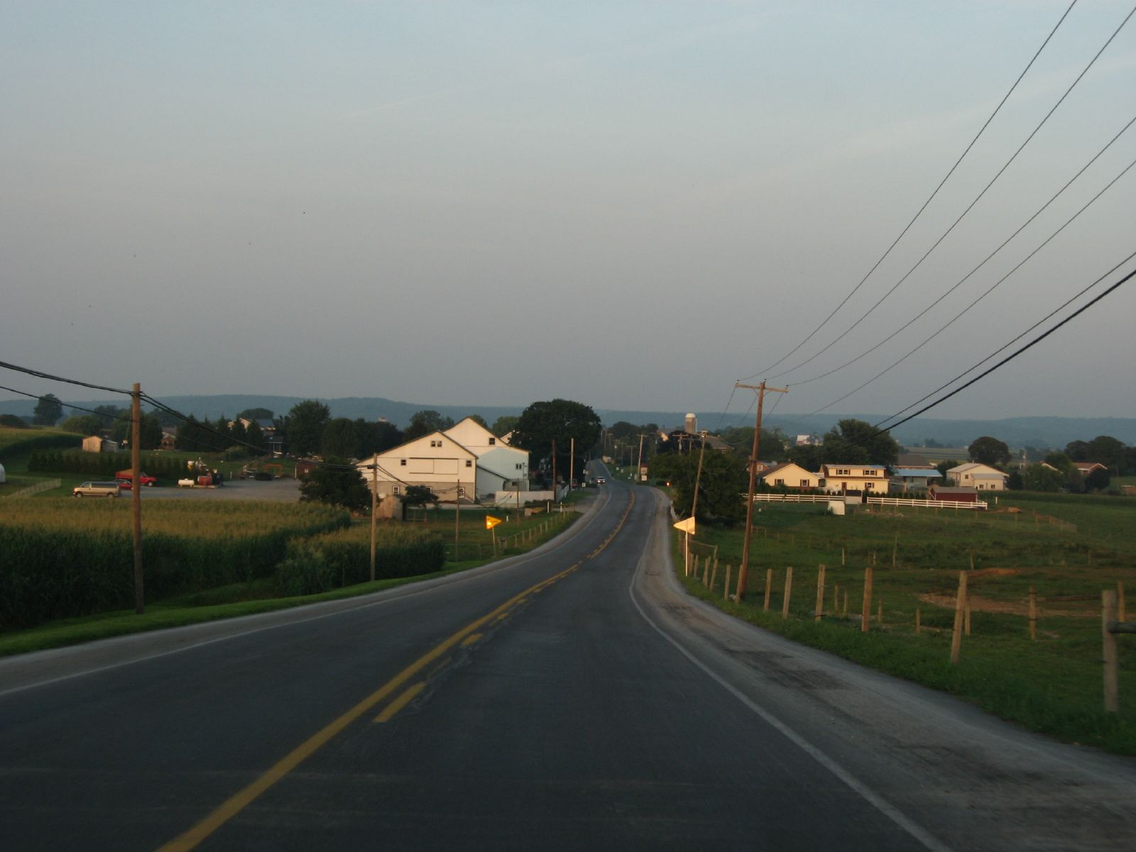 Pennsylvania Route 340 in Salisbury Township, Lancaster County, Pennsylvania